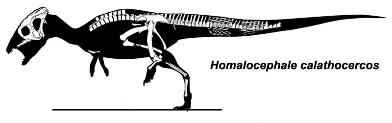 Skeletal reconstruction of Homalocephale calathoceros.